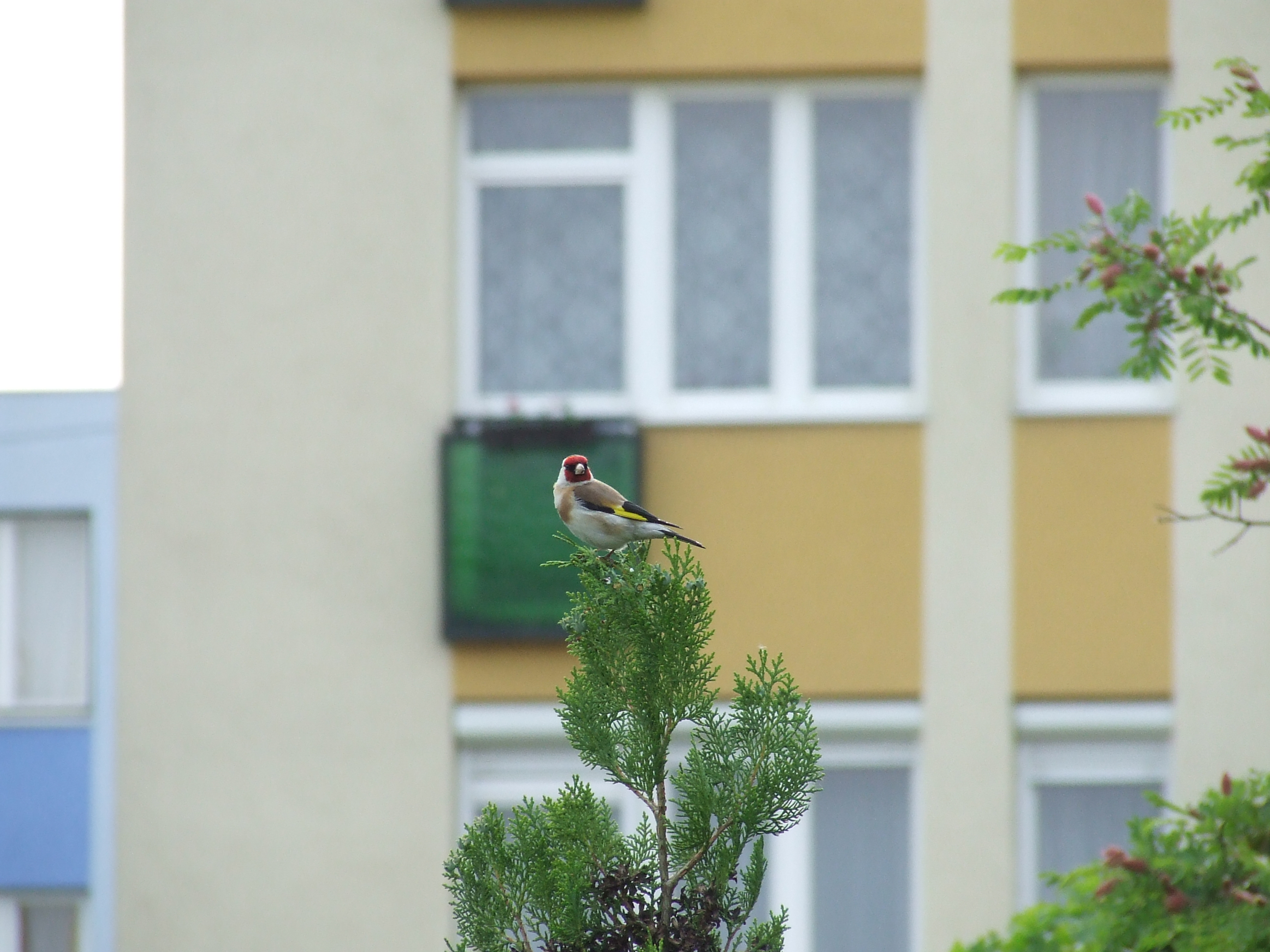 A European Goldfinch (Carduelis carduelis) on a thuja tree in a garden in Nyíregyháza, Hungary.